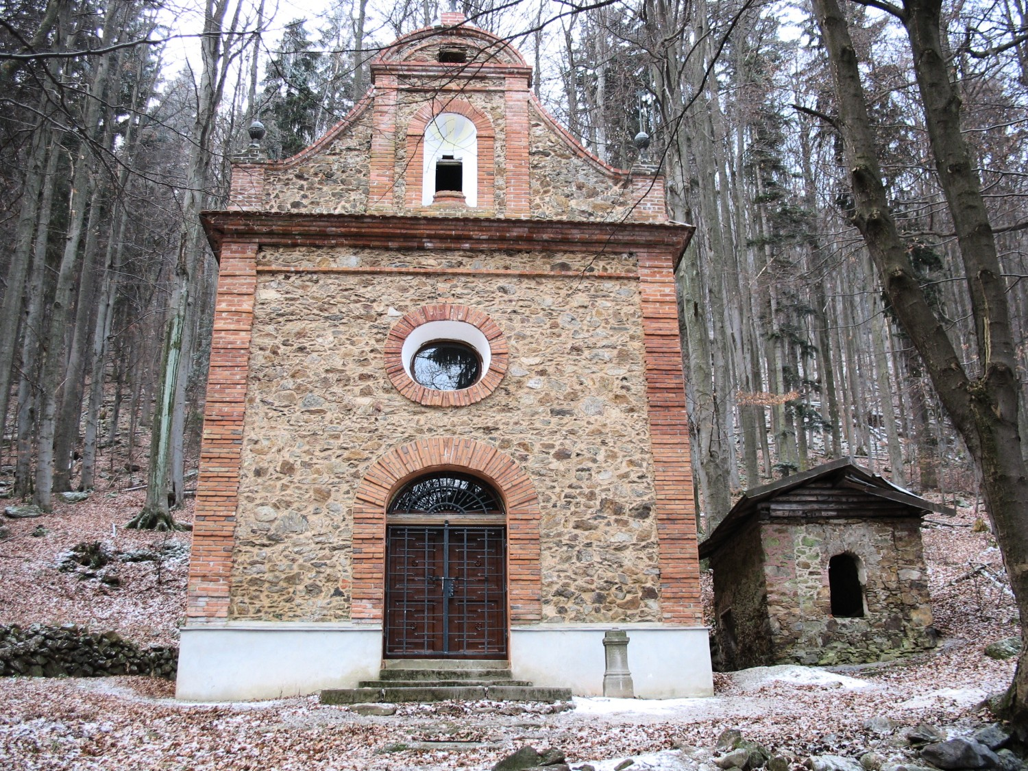 Chapel Patriarcha in nature reserve Libín